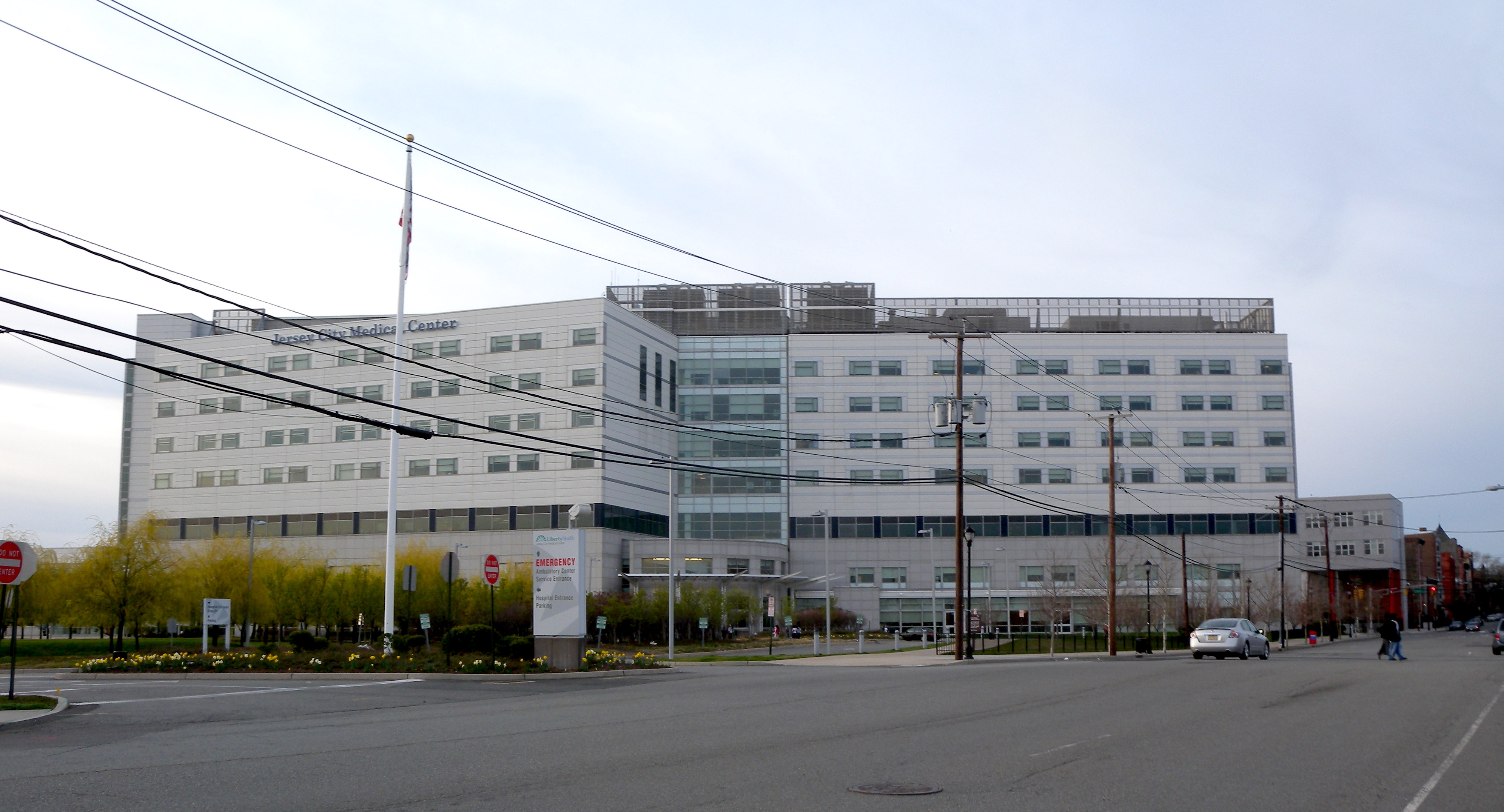 Looking north from Jersey Avenue at Jersey City Medical Center on a mostly sunny afternoon.